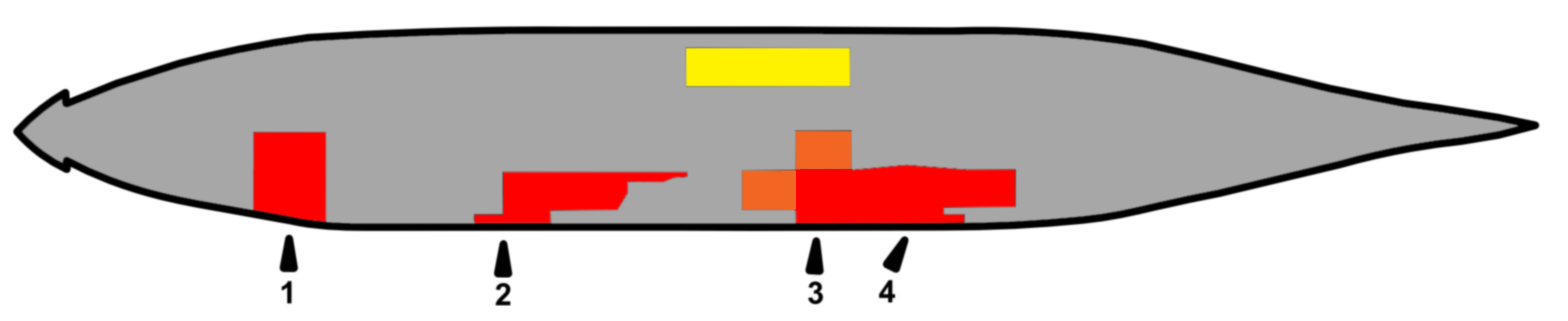 Torpedo impact damage to the aircraft carrier Shinano, 1944; red = immediate flooding; orange = slow flooding; yellow = deliberate counter-flooding